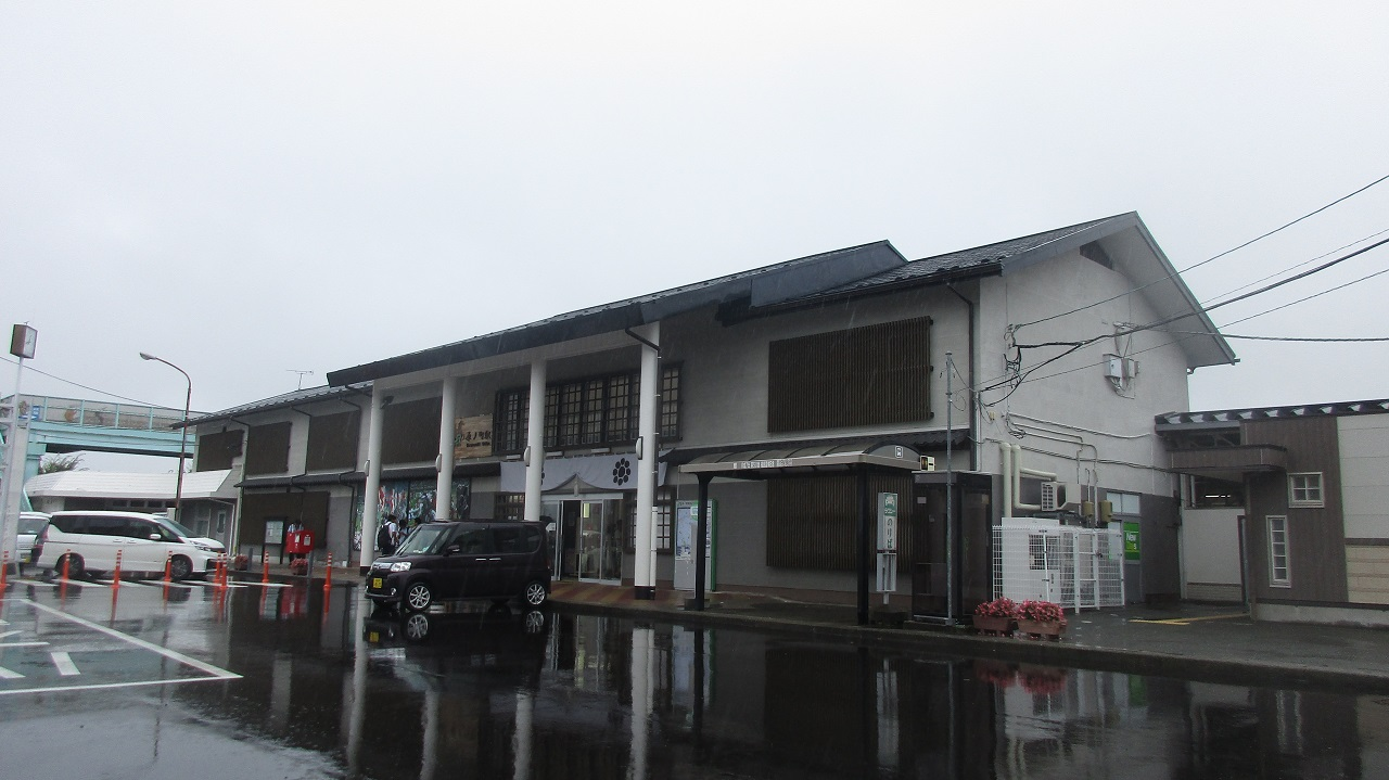 JR常磐線 原ノ町駅舎